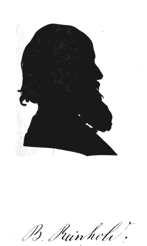 Self-Silhouette of Bernhard Reinhold, from: Silhouetter klippta af B. Reinhold: Silhouetteja leikannut B. Reinhold. 1873 Digitalisat